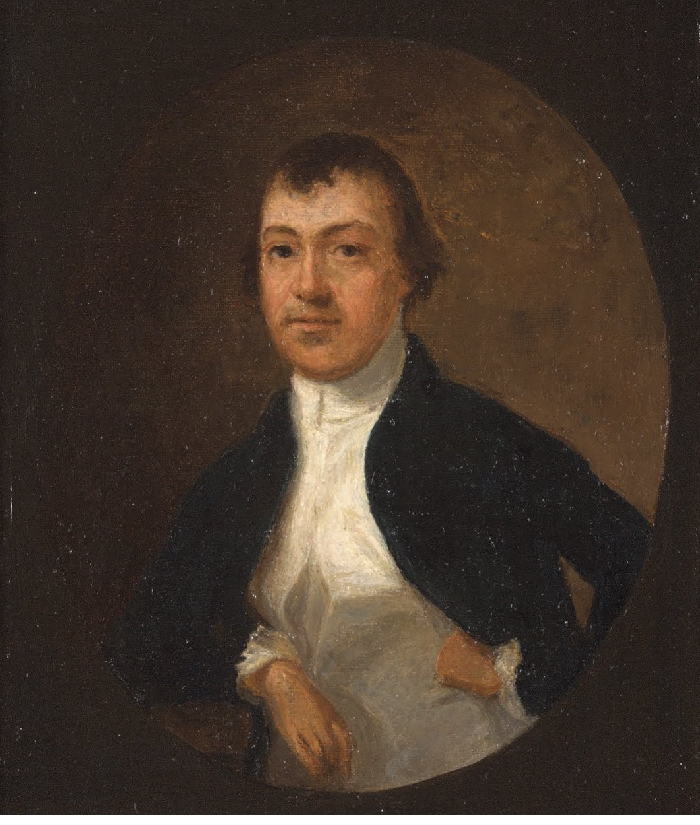 Portrait of Virginia Governor Thomas Mann Randolph